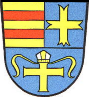 Coat of arms of the former district Eutin in Schleswig-Holstein, Germany.